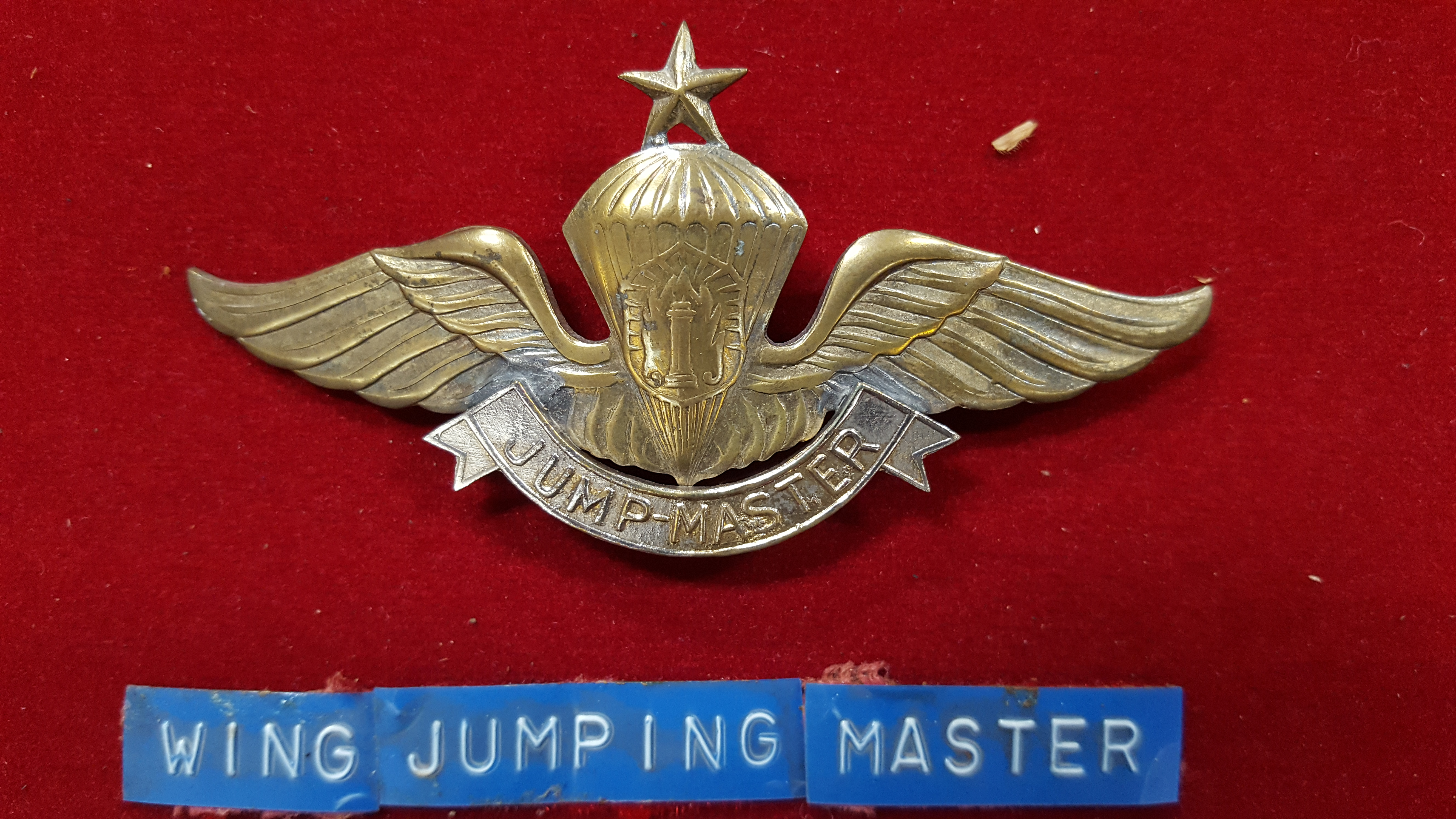 Jumping Master Wing of the Indonesian Army